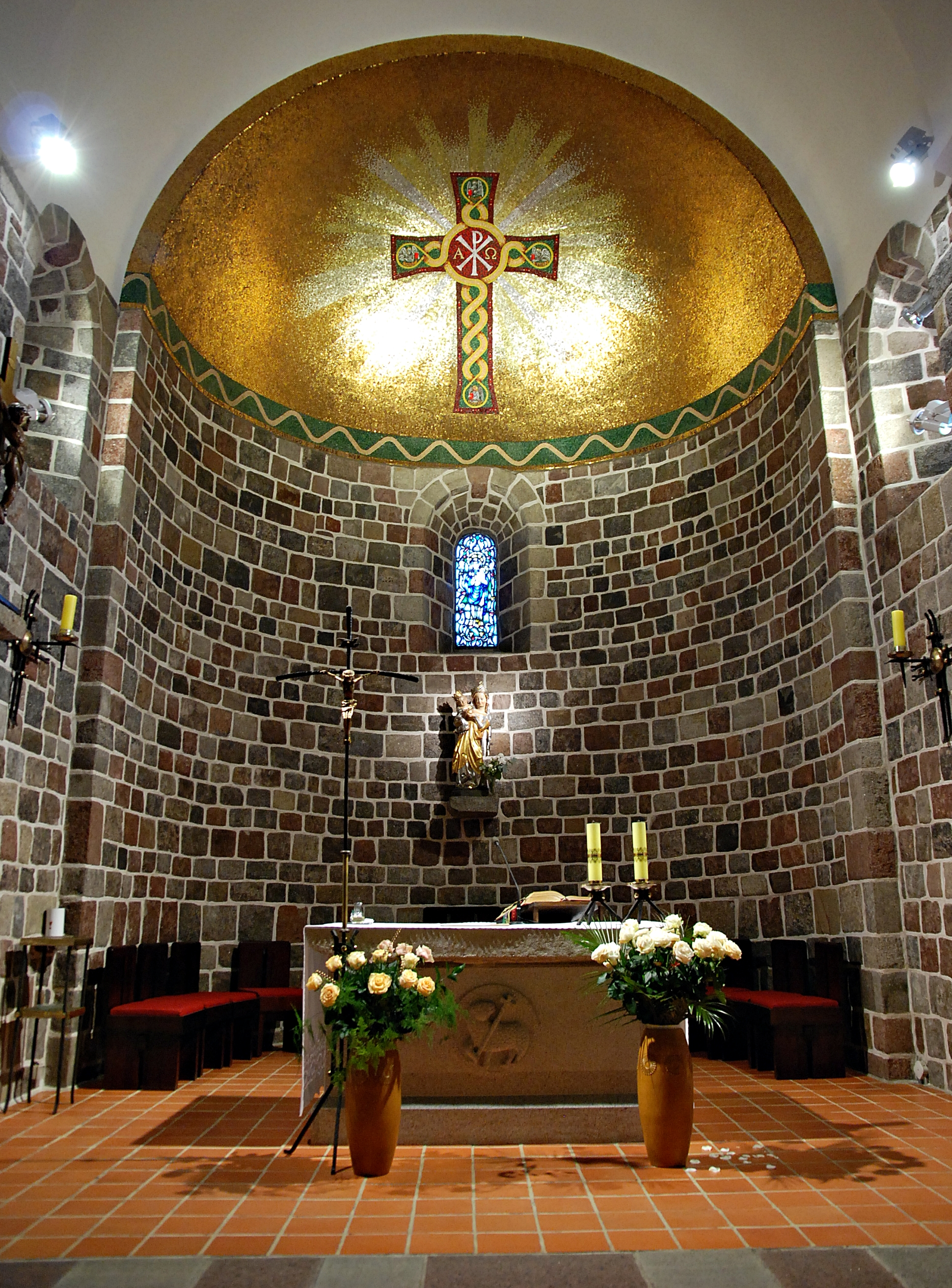 St. Mary Church in Inowrocław, interior.